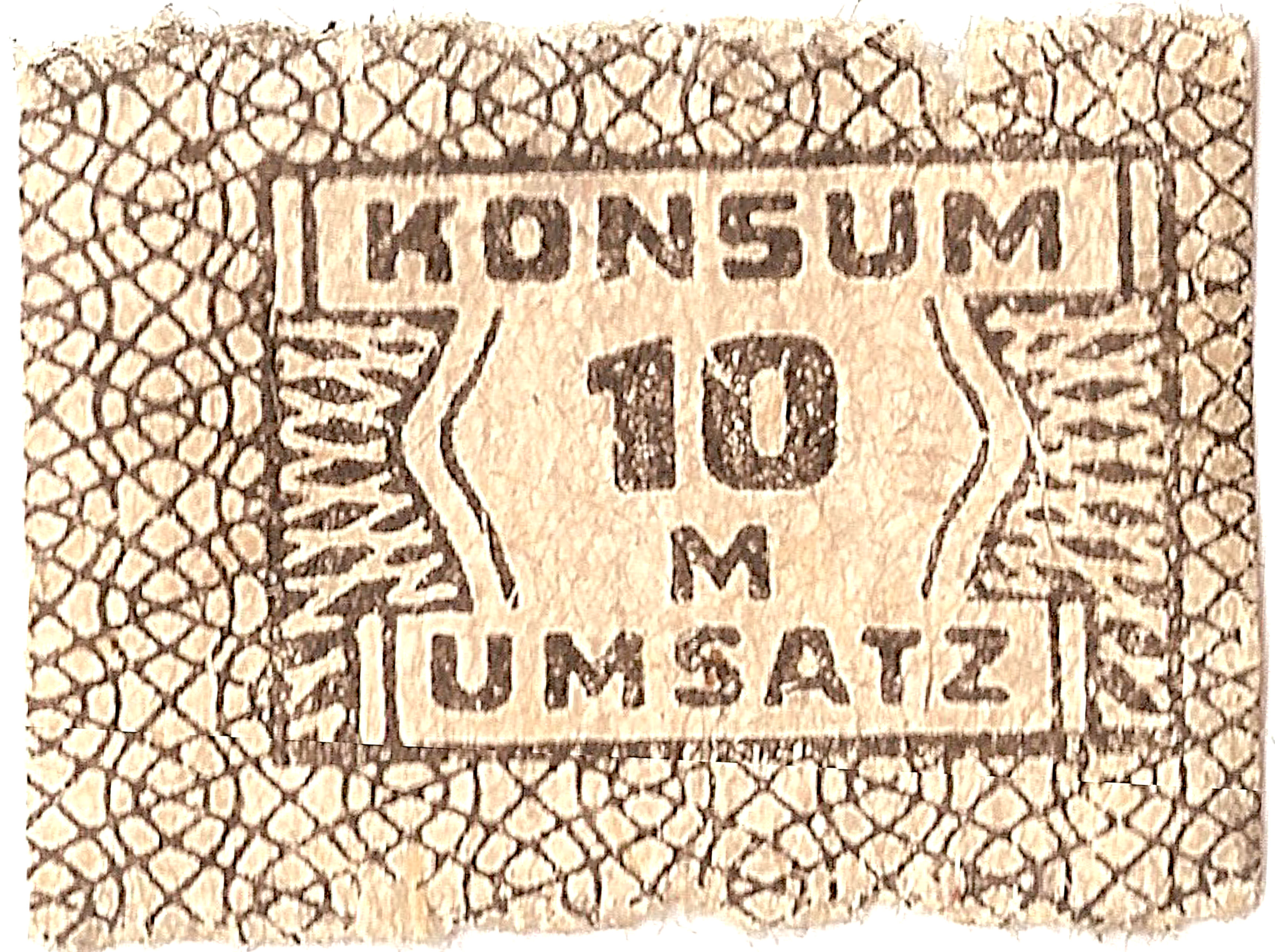 Trading stamp of Konsumgenossenschaft(Cooperative)GDR